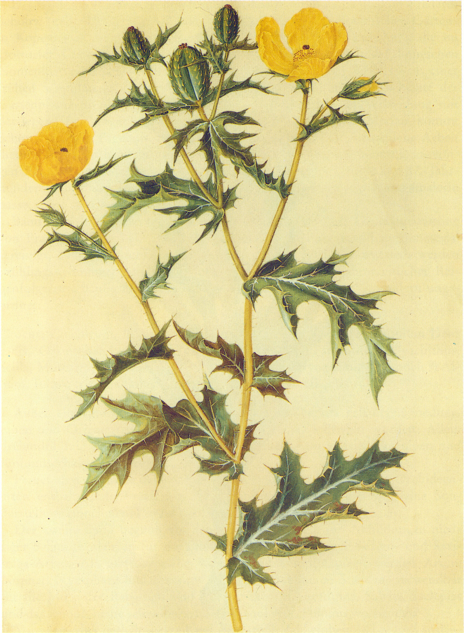 Argemone mexicana, gouache on vellum, in: Gottorfer Codex